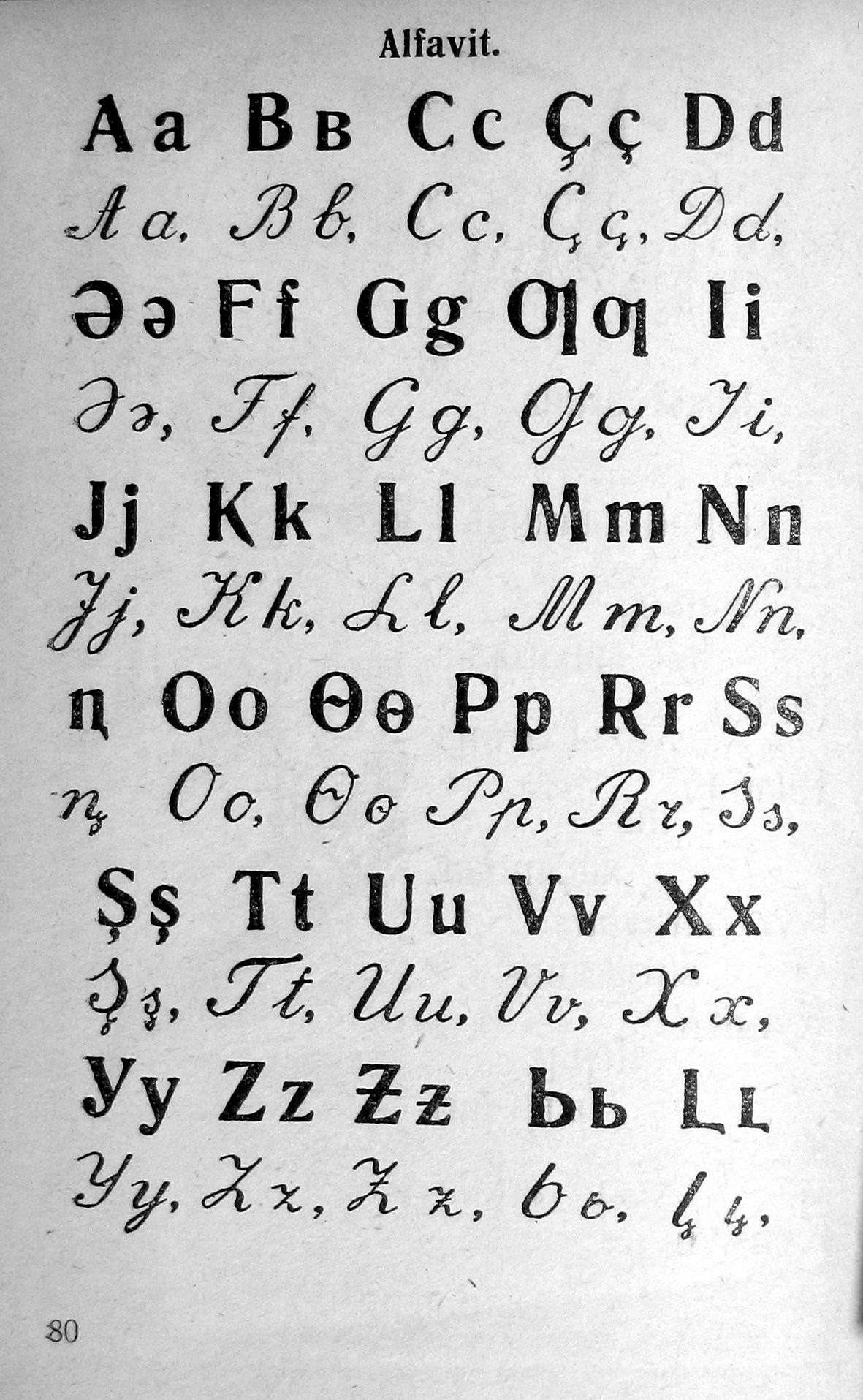 Scan form Khakas book 'Bukvar' (1934)